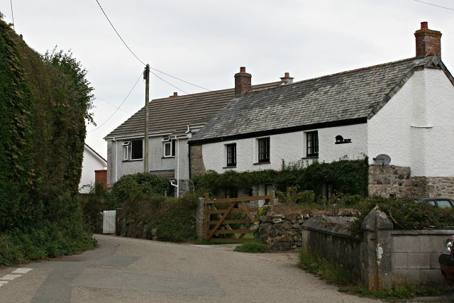 Ruthvoes. Ruthvoes is a hamlet north of Indian Queens.